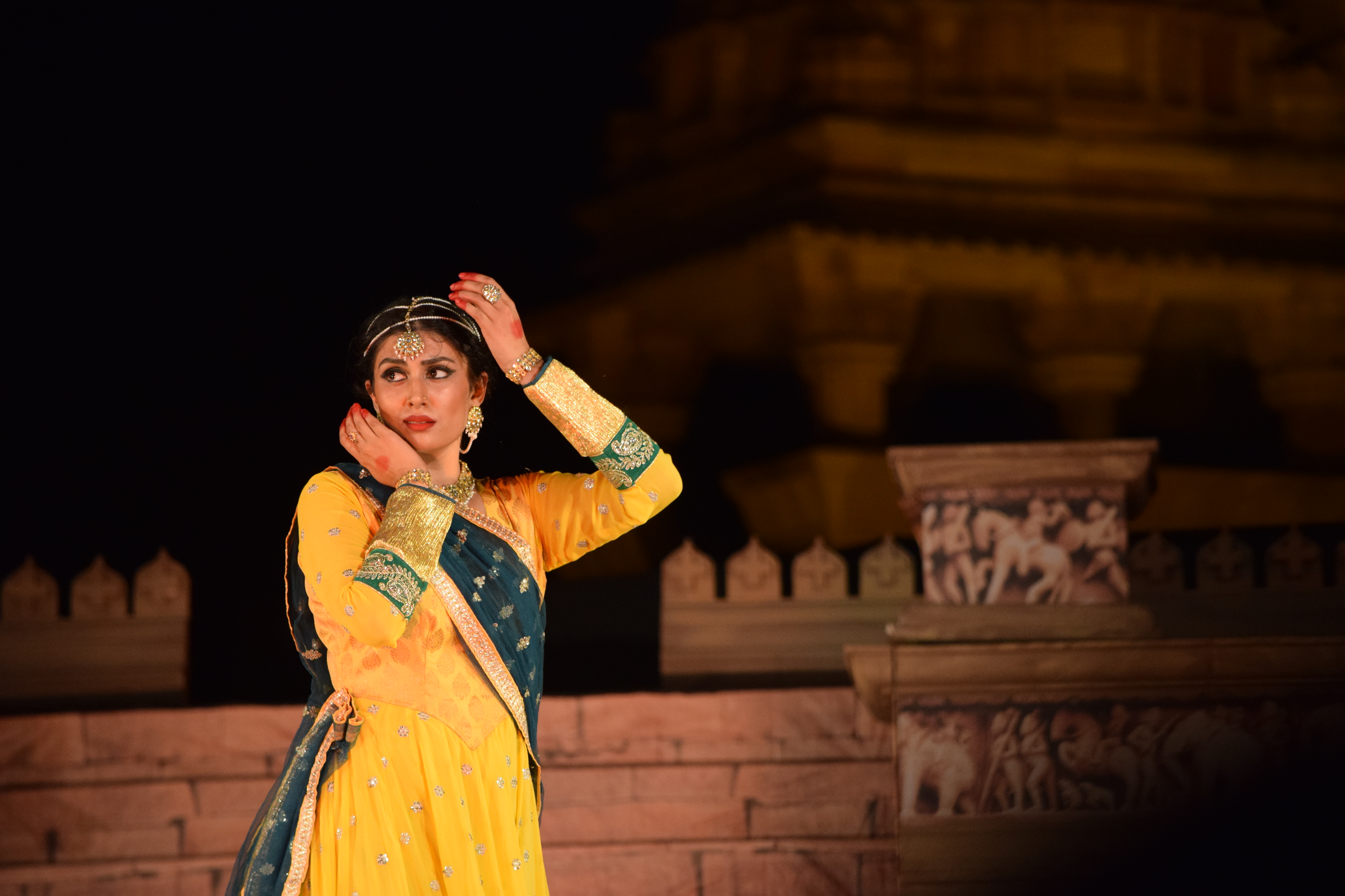 indian classical dance performance by shinjini kulkarni, kathak dancer, granddaughter of pt. birju maharaj ji of lucknow gharana, india.